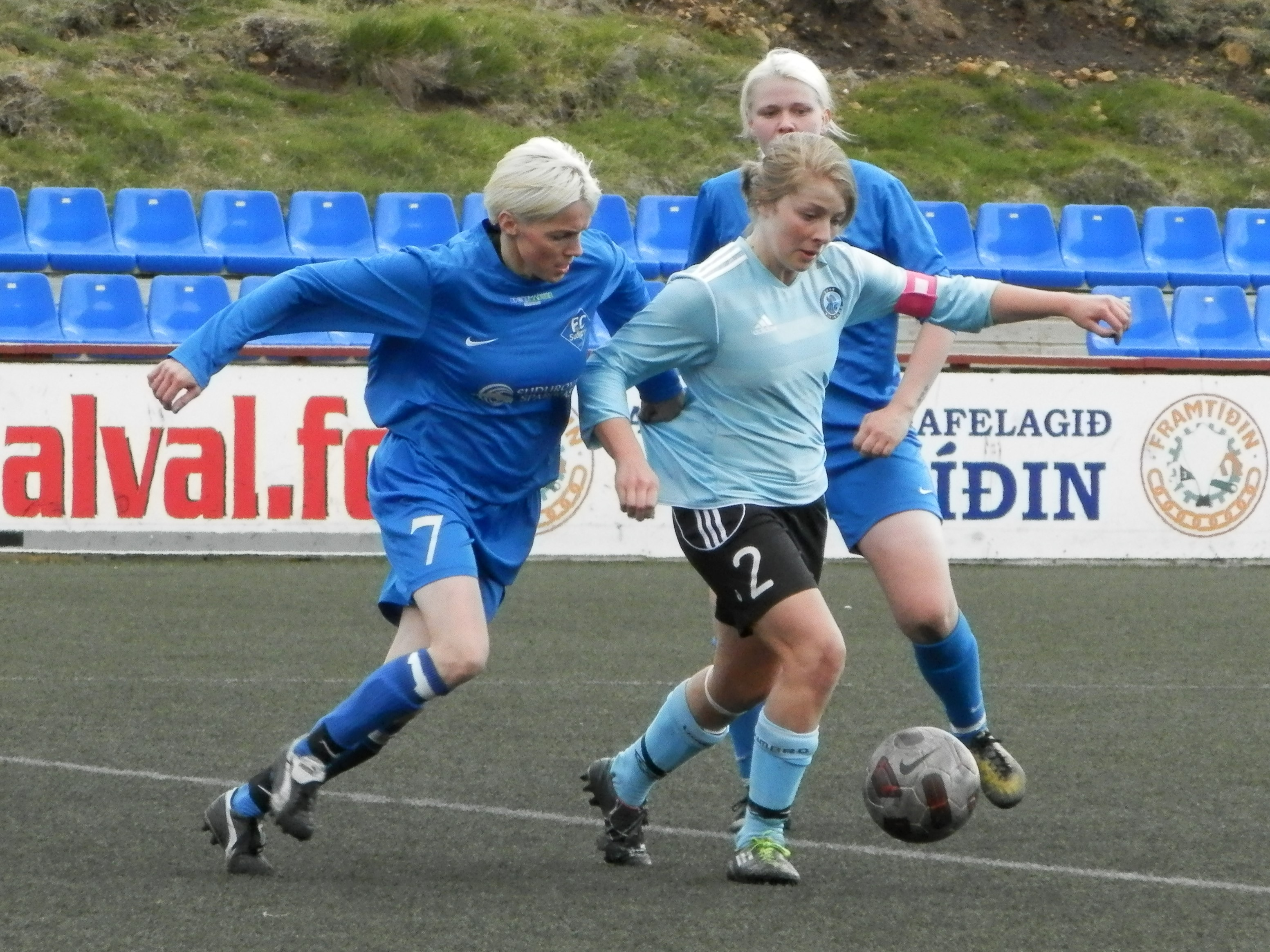 Football match in the Faroe Islands in the women's best division 1. deild. The match was played on 1 July 2012, it was between FC Suðuroy and Víkingur Gøta. The Víkingur player on this photo is Ansy Sevdal.